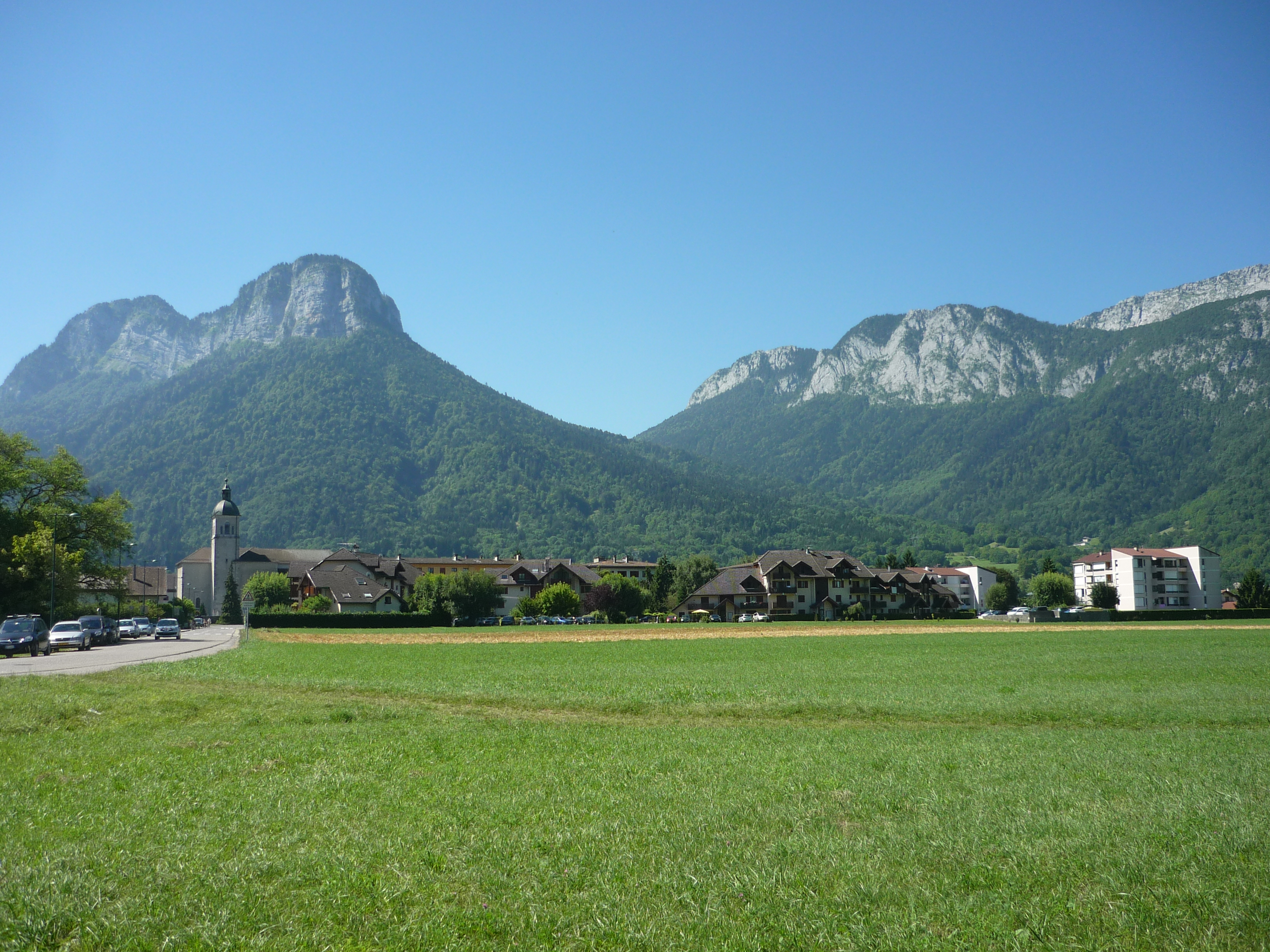 Doussard, Haute-Savoie, France